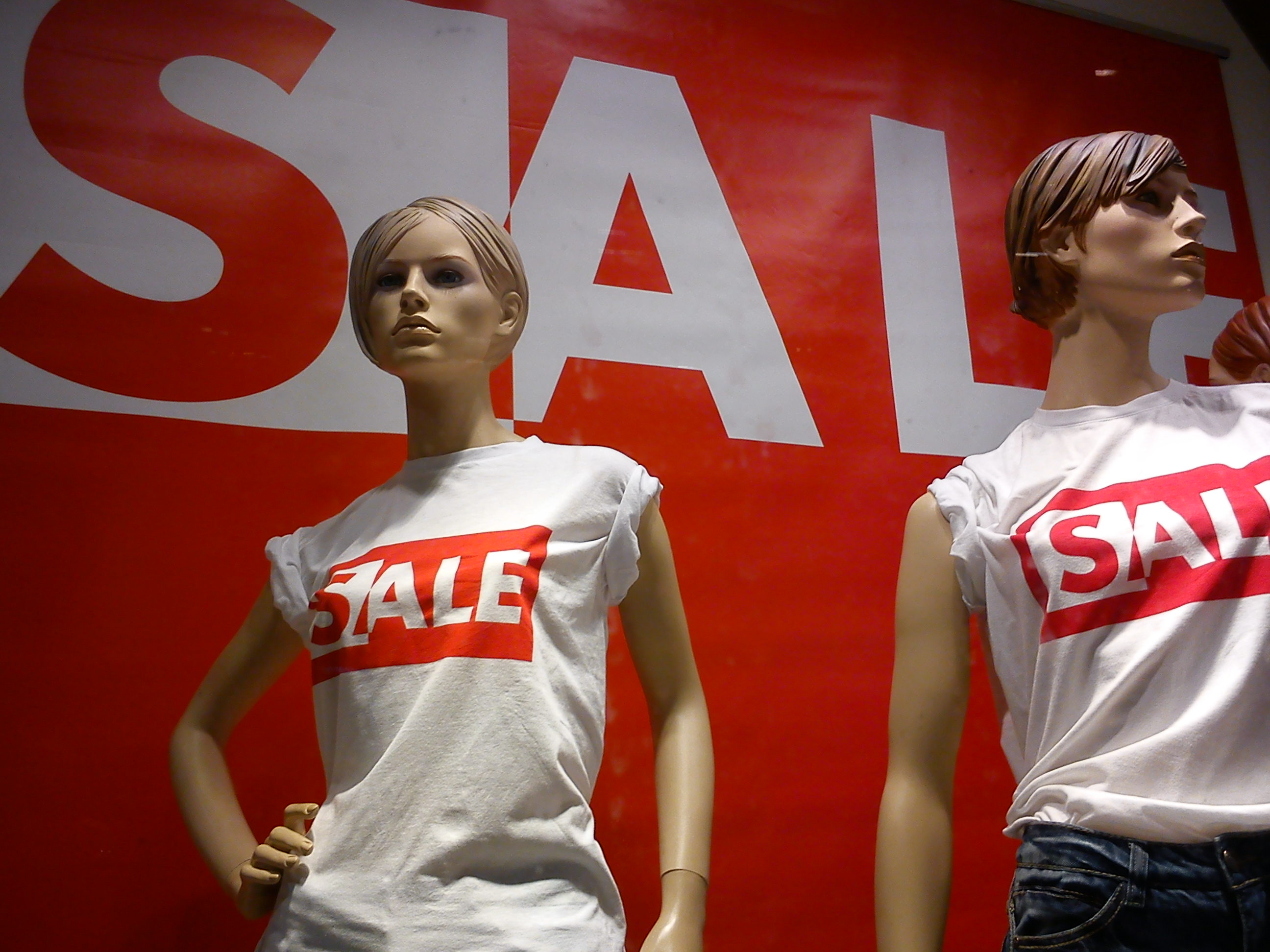 Sales in Poznań, 28.12.2011.